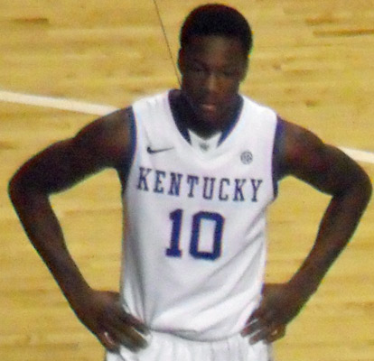 Archie Goodwin during a Kentucky Wildcats men's basketball game